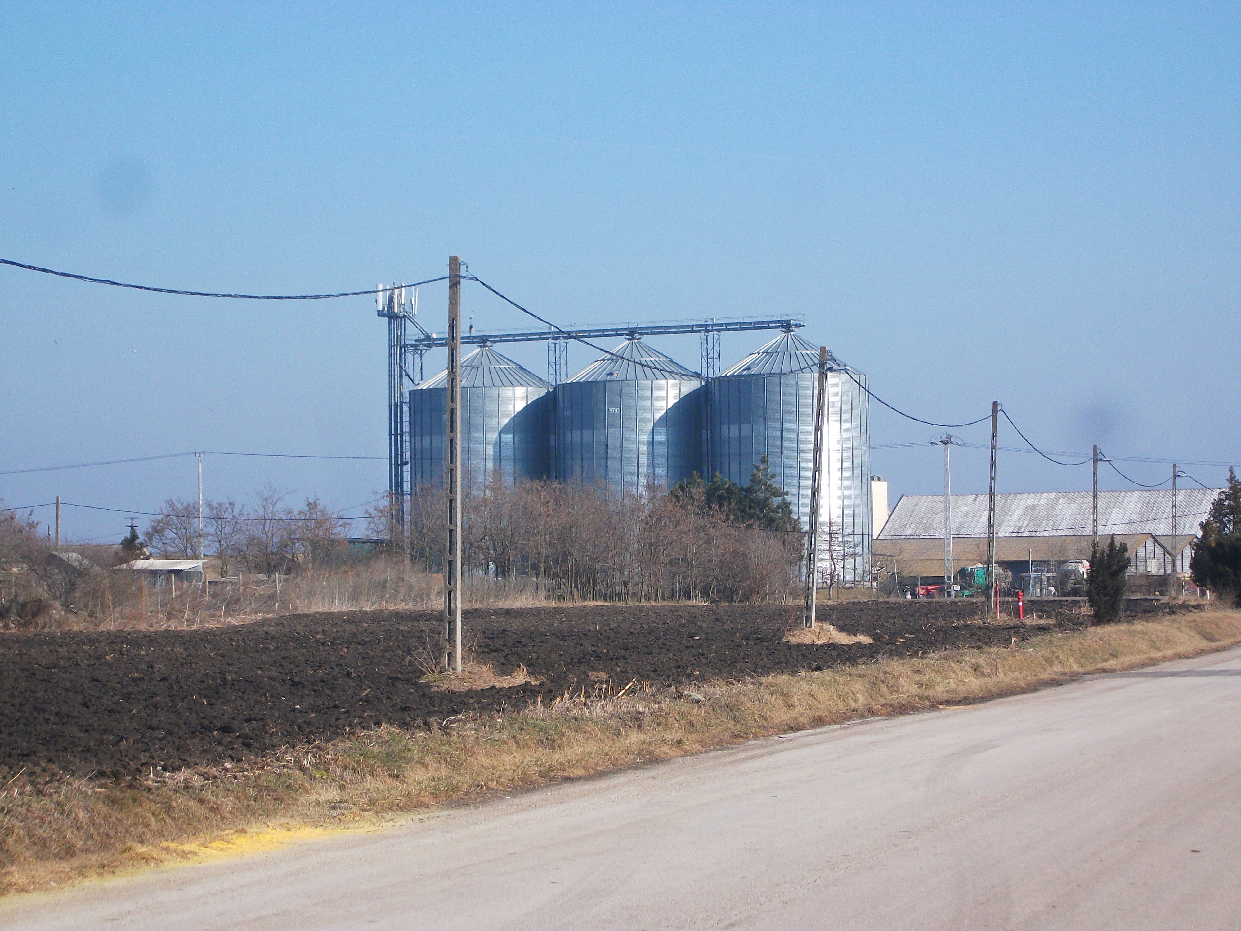 Buildings of Agárdi Farm Kft in Zichyújfalu, Hungary.